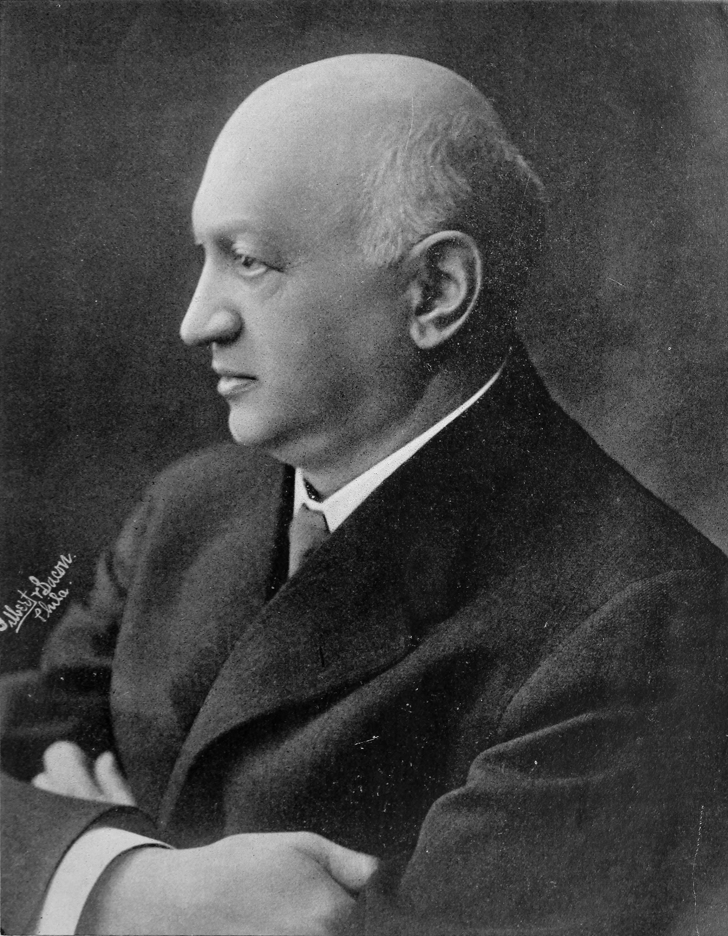 Media magnate Siegmund Lubin in a promotional portrait from around 1913